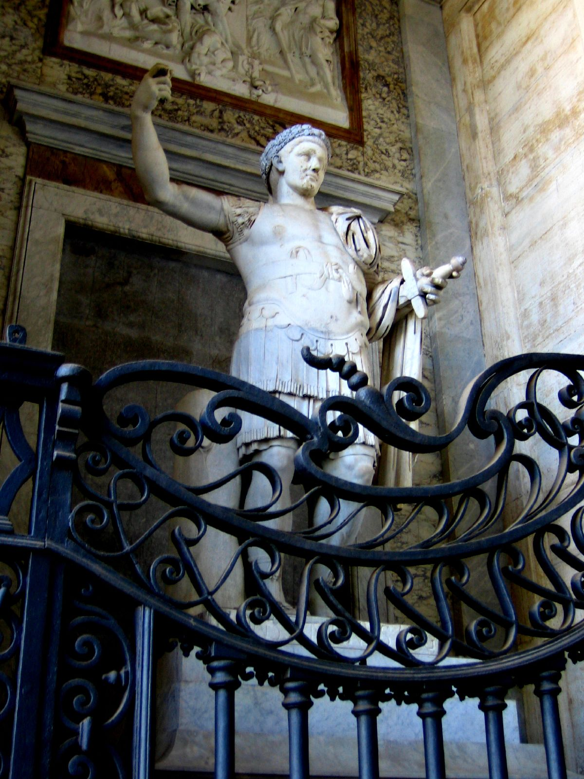 In the porch of S. Giovanni in Laterano is this ancient statue of an emperor, once thought to be Constantine himself. In fact it is his son Constantius II.